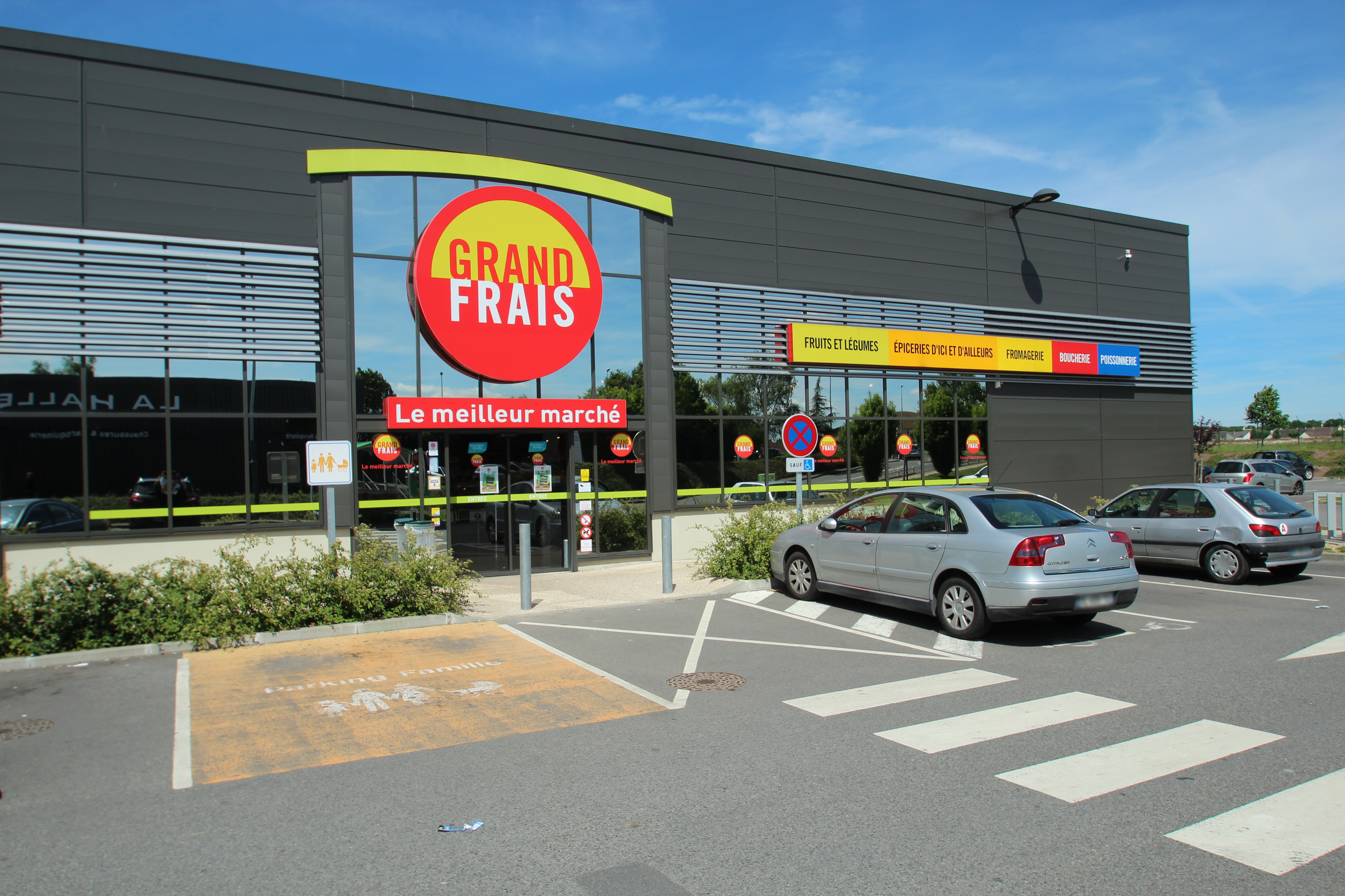 Giroderie shopping center in Rambouillet, France. Object location48° 38′ 43.15″ N, 1° 50′ 46.79″ E